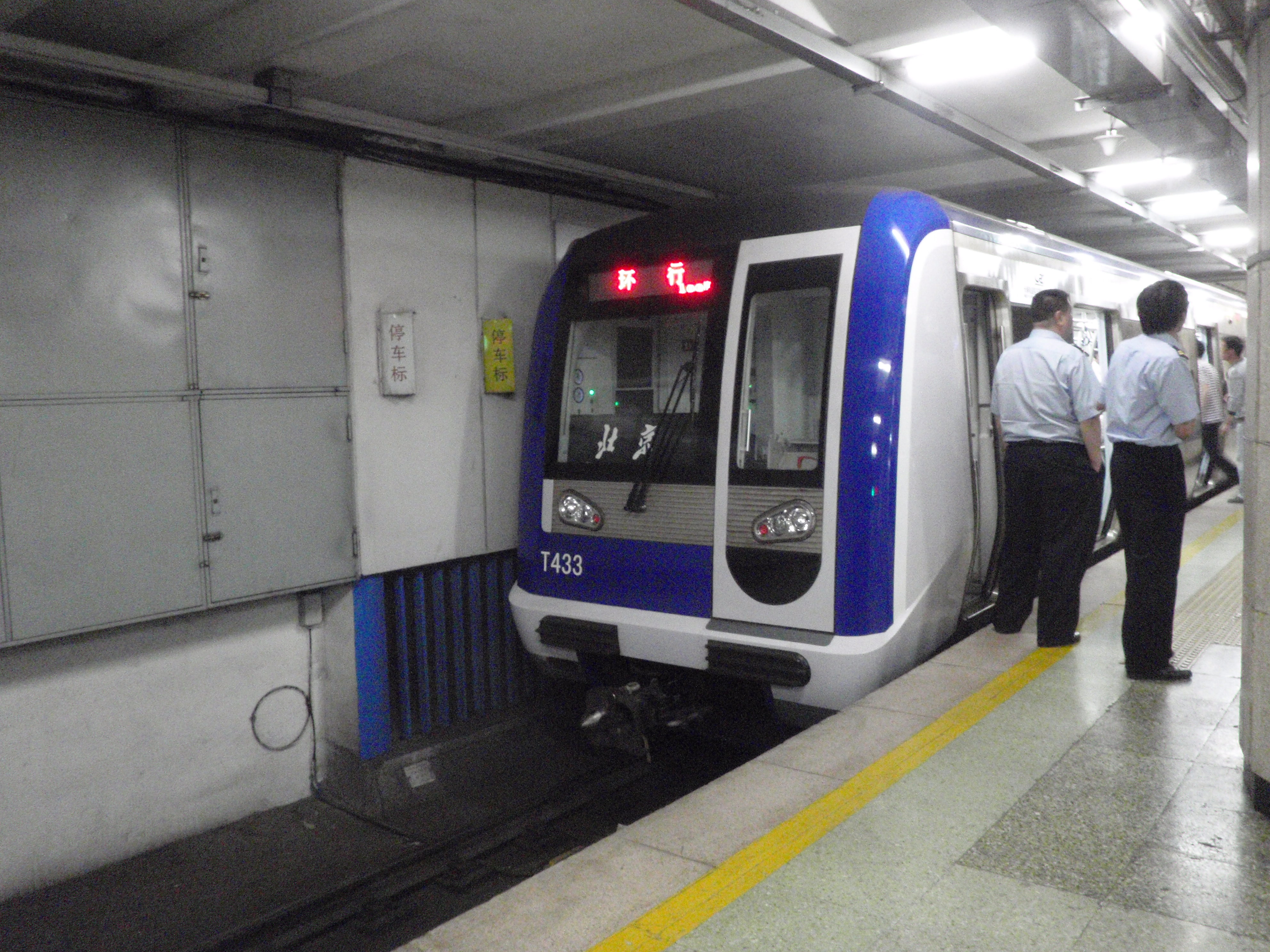 The current EMU of Beijing Subway Line No.2.